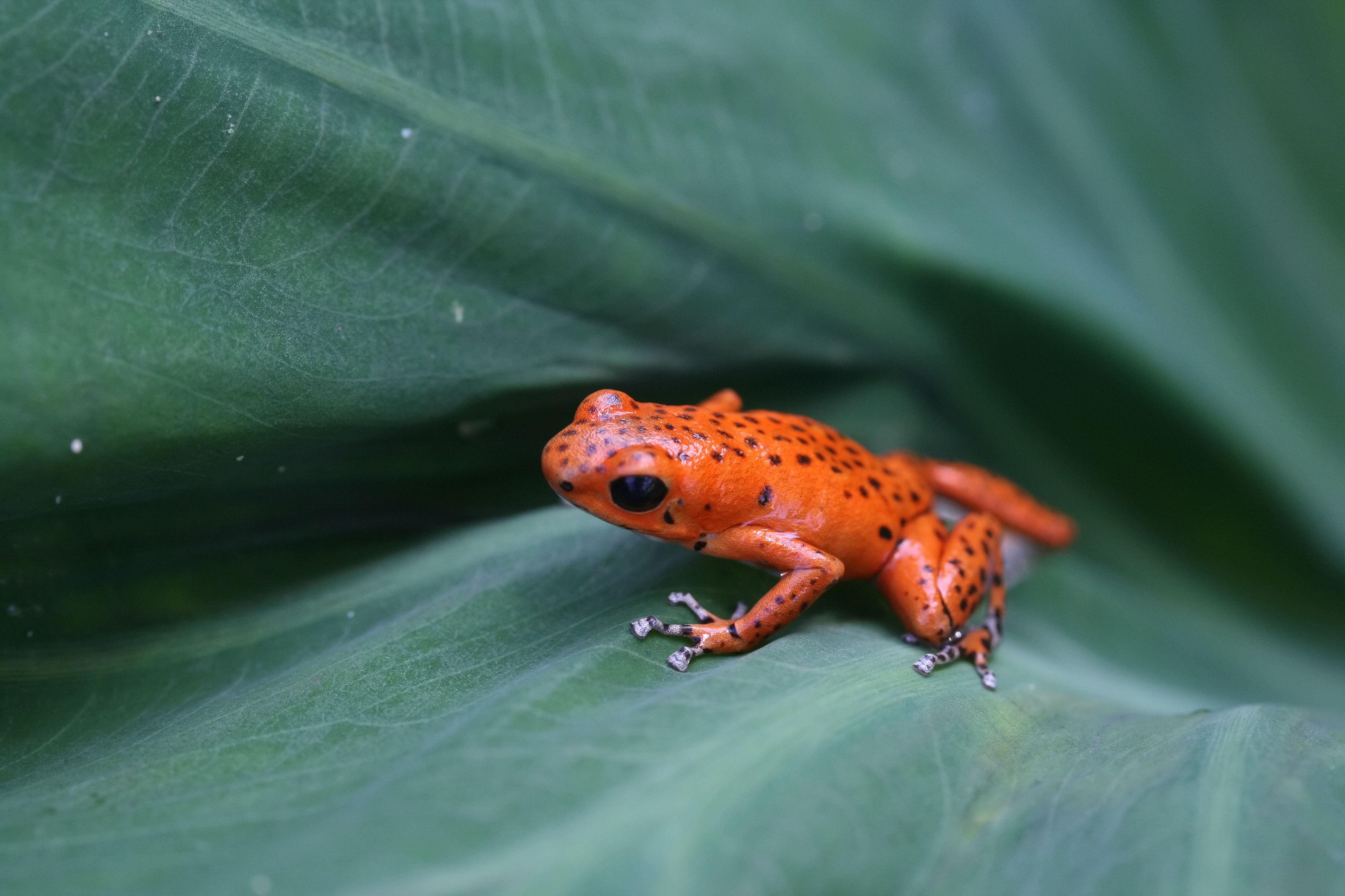 Red poison-dart frog (Dendrobates pumilio). Picture was taken on the island of Bastimentos in the Bocas del Toro province, Panama.